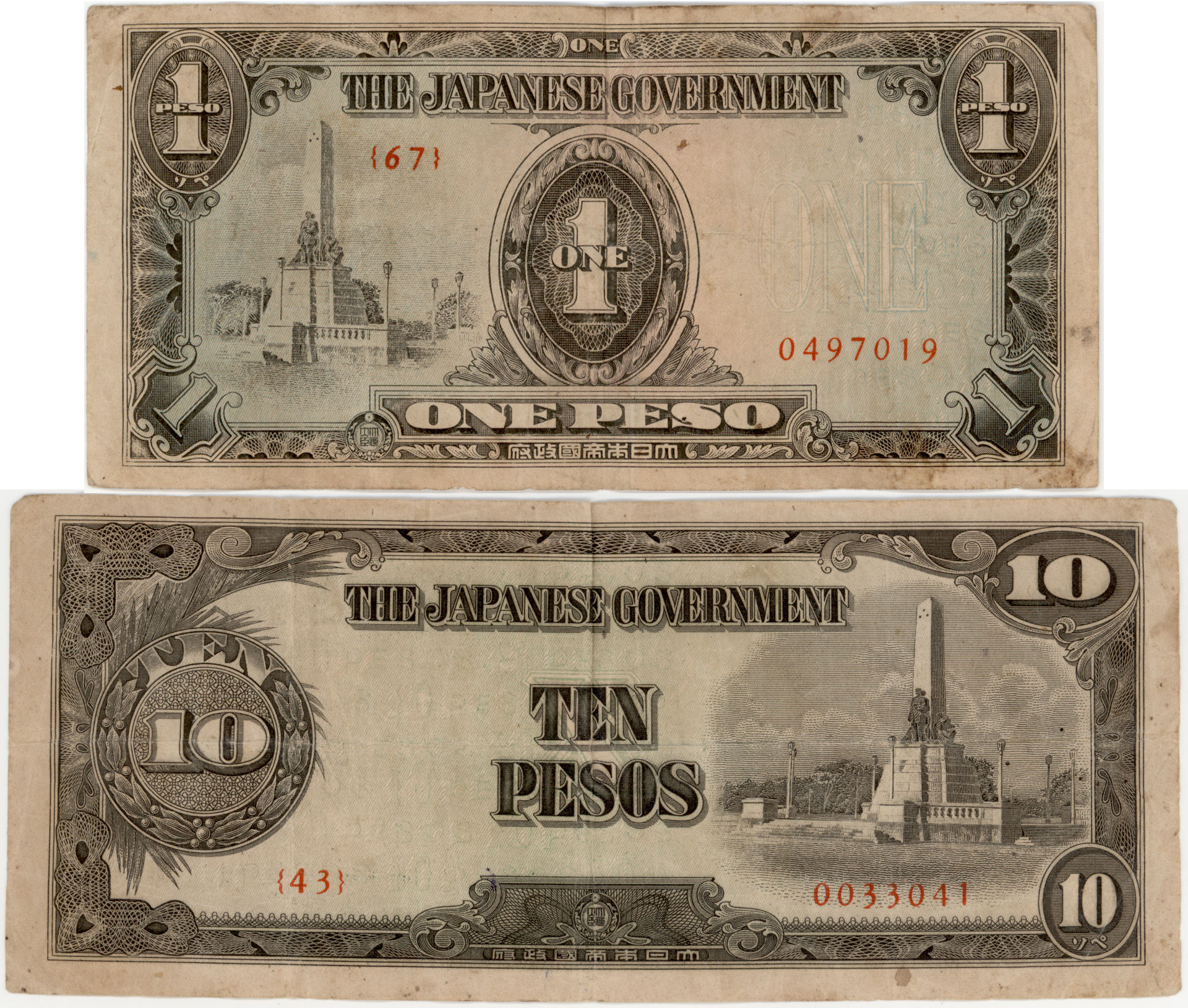 Peso bills circulating in the Philippines during World War II issued by the Japanese government showing Rizal Monument from Luneta Park in Manila.